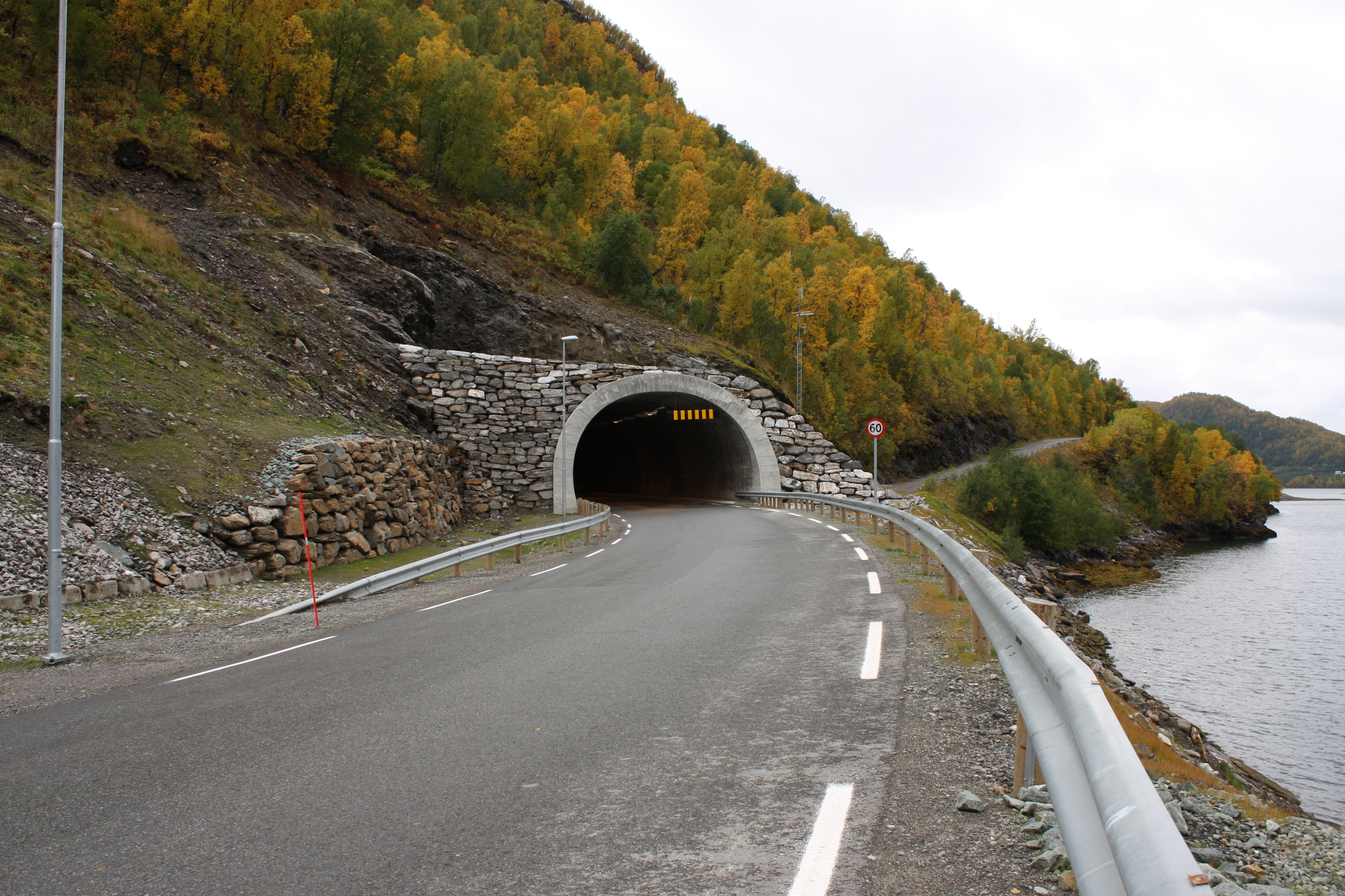 Isbergantunnelen (road tunnel) - Southwest Entrance